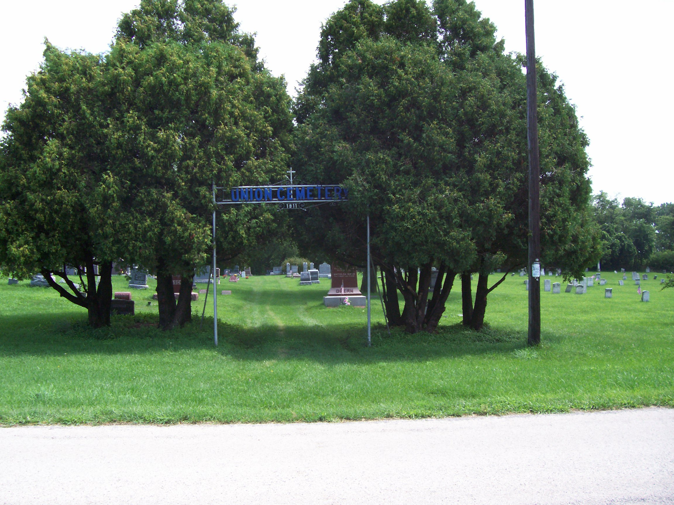 Union Cemetery in the town of Brothertown, Calumet County, Wisconsin. One mile north of the unincorporated village of Brothertown. The cemetery contains graves for many Brothertown Indians. I took this image myself on August 6, 2006 (camera date set wrong).